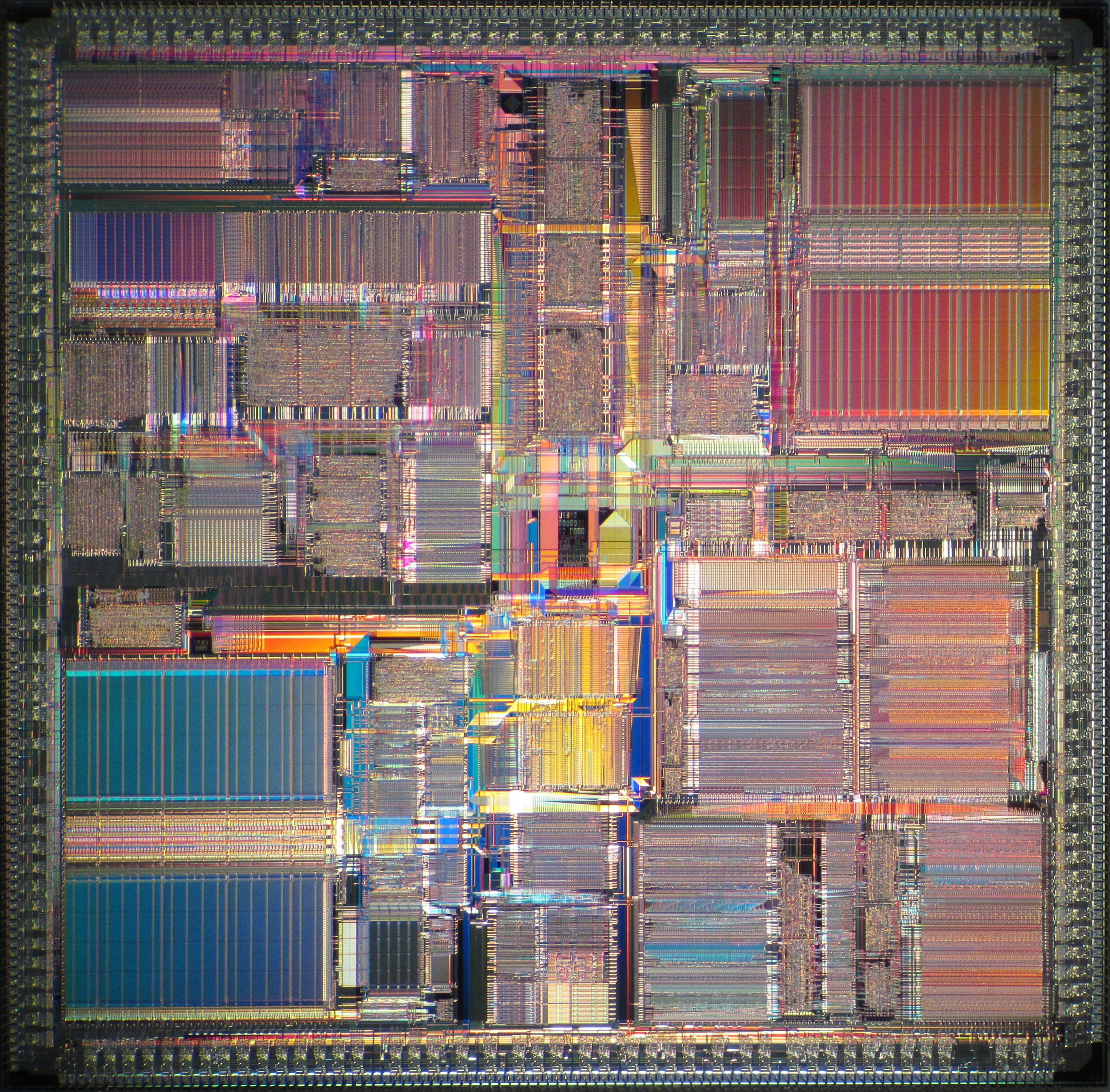 Die shot of Sun SuperSPARC II (STP1021APGA-75) microprocessor.